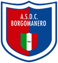 Logo of A.S.D.C. Borgomanero football club.